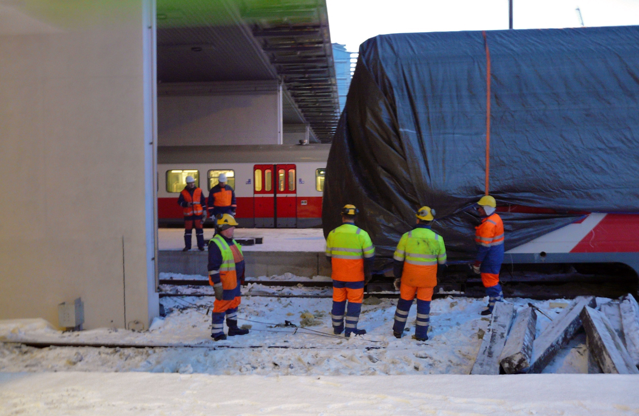 A situation on the following day of a train accident at Helsinki Central railway station which happened in January 4th, 2010. So the picture has been taken in evening in January 5th, 2010.